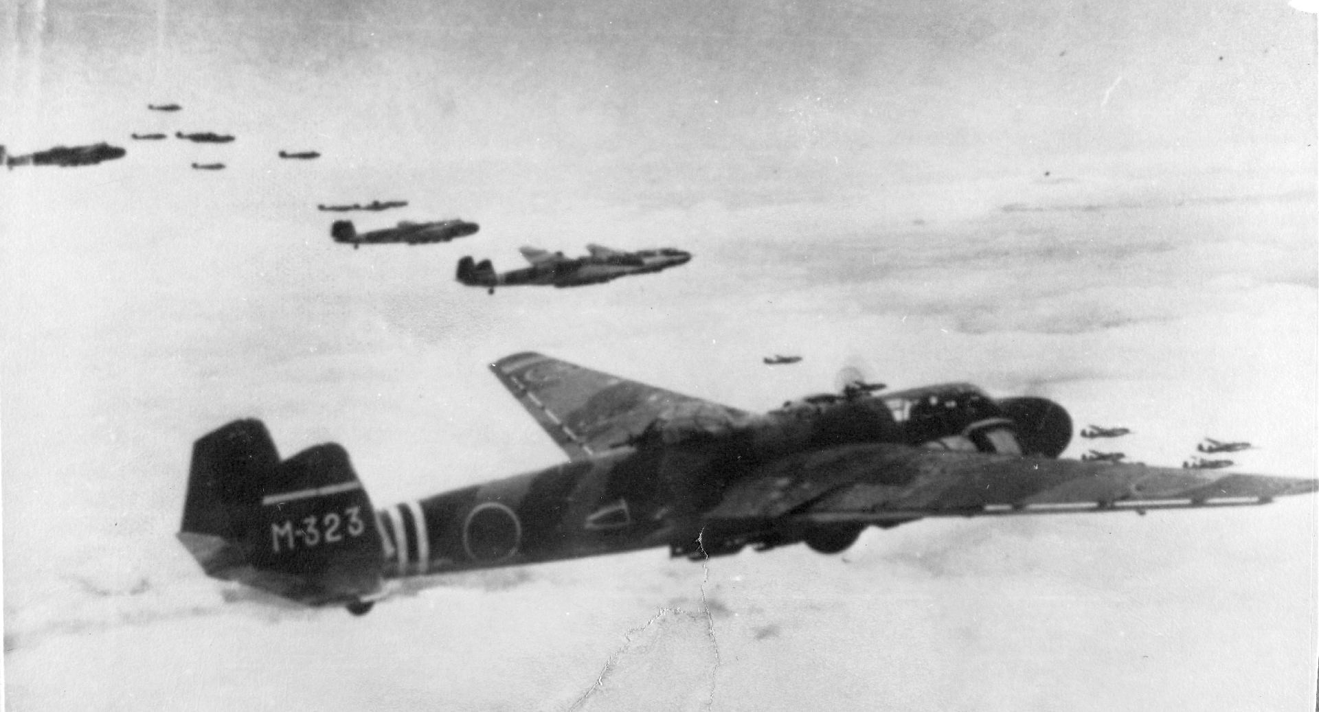 Mitsubishi Nakajima G3M2